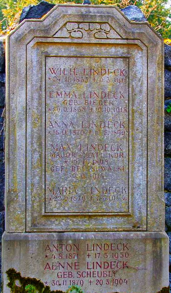 Family grave of the Lindeck family in Mannheim, Germany.